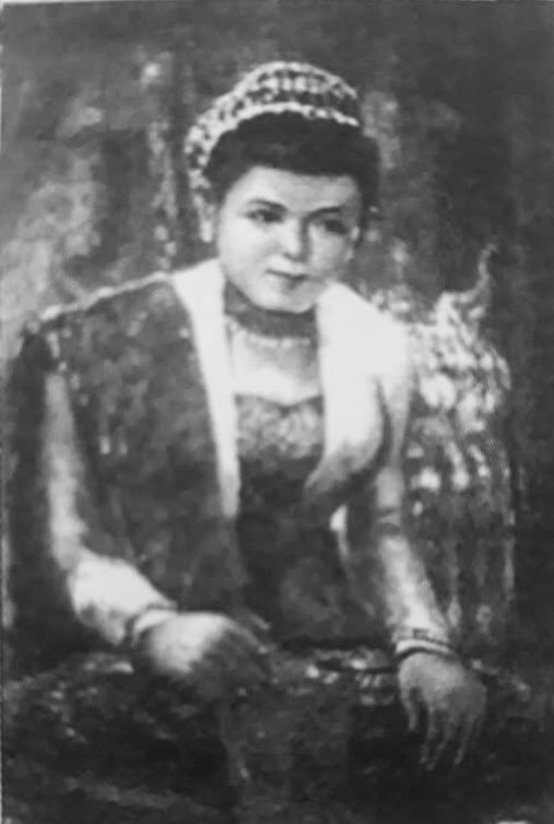 Seindon Mibaya was a queen of fourth rank of King Mindon Min during the Konbaung dynasty.